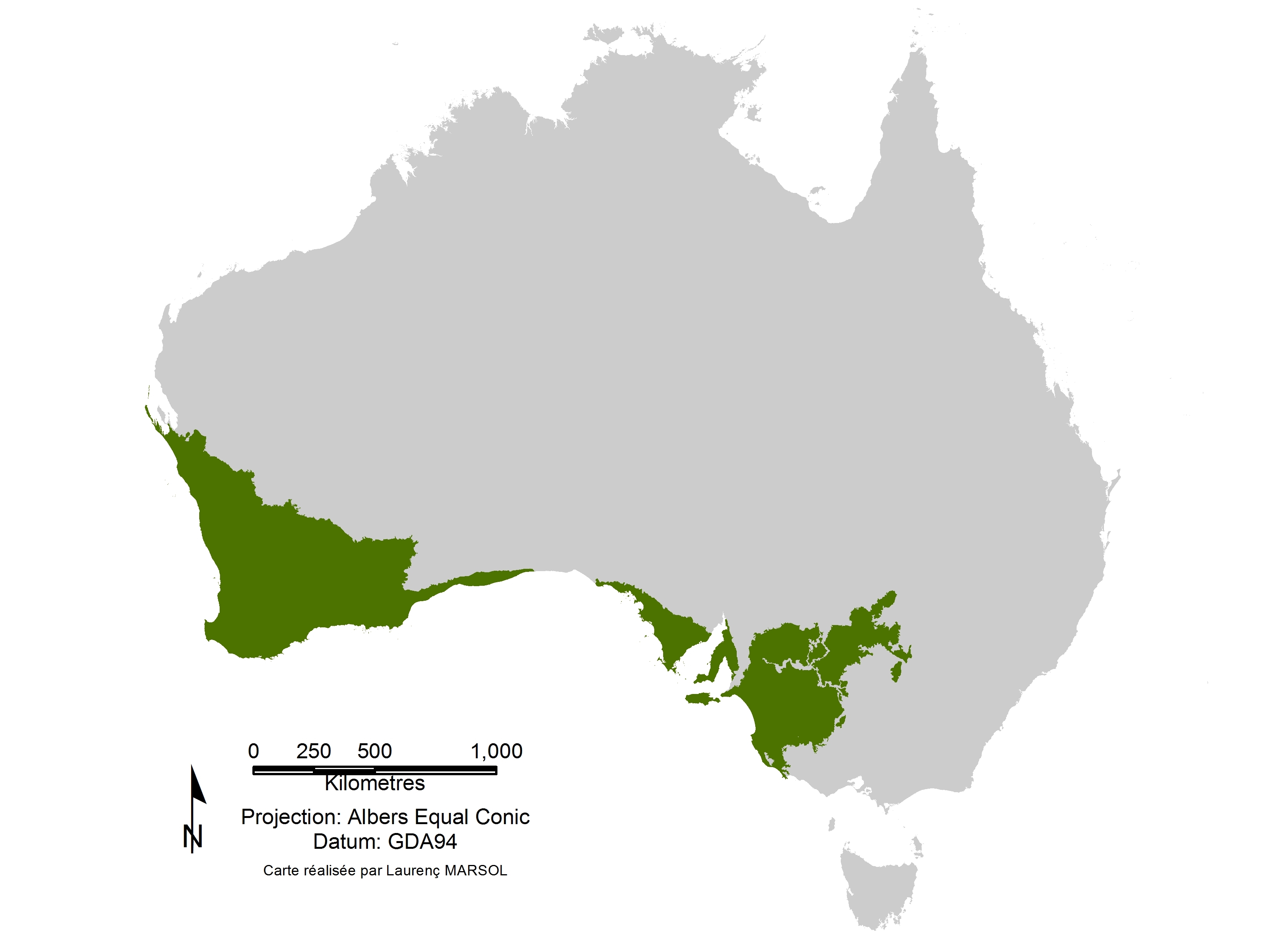 Mediterranean forests, woodlands, and scrub of South West and South Centre of Australia.